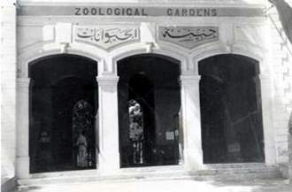 Giza Zooligical Gardens Old Entrance in 1912.